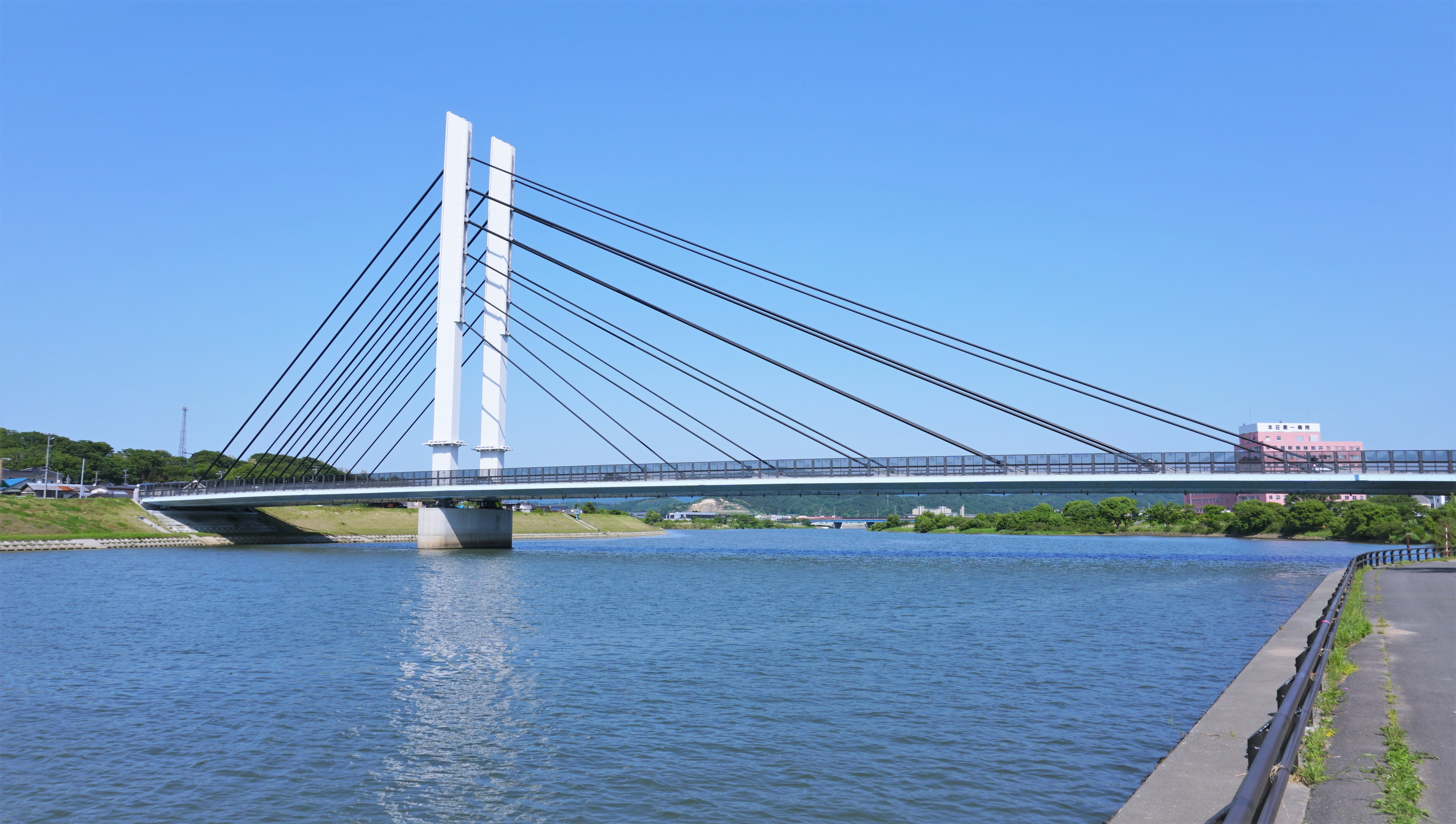 Yuri Bridge across the Koyoshi River, in Yurihonjo City, Akita, Japan